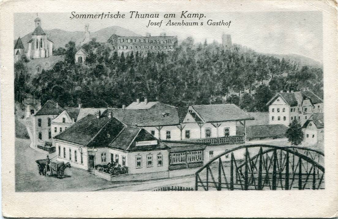 Postcard by Josef Prokopp (1872-1952), c. 1920